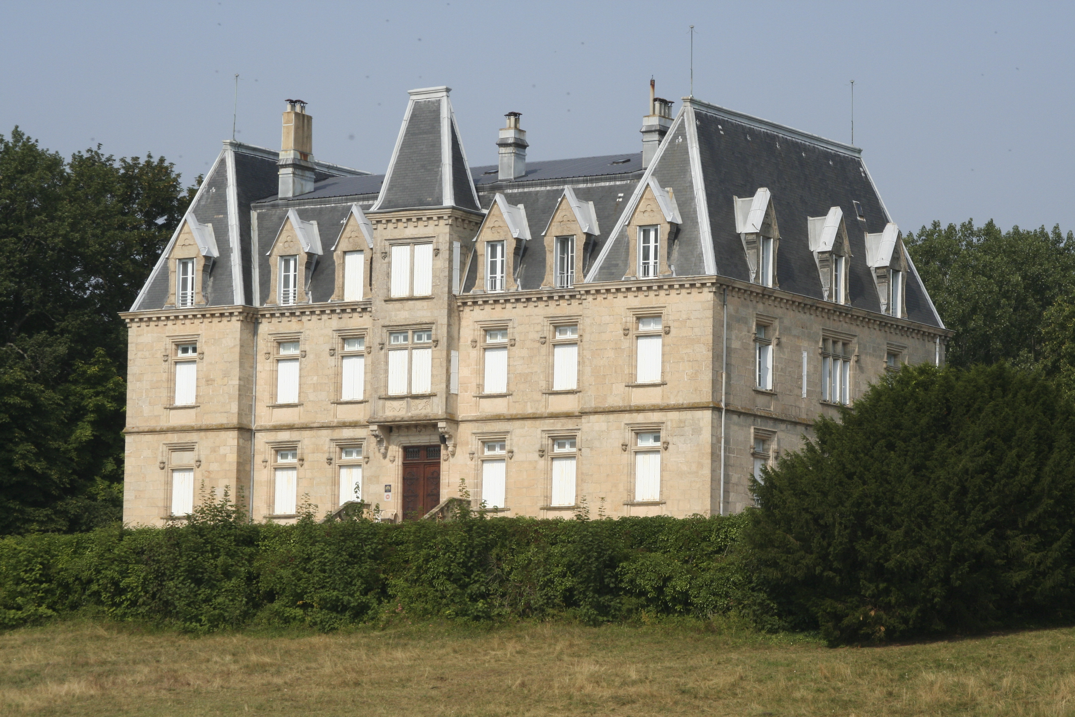 Castle Faugs